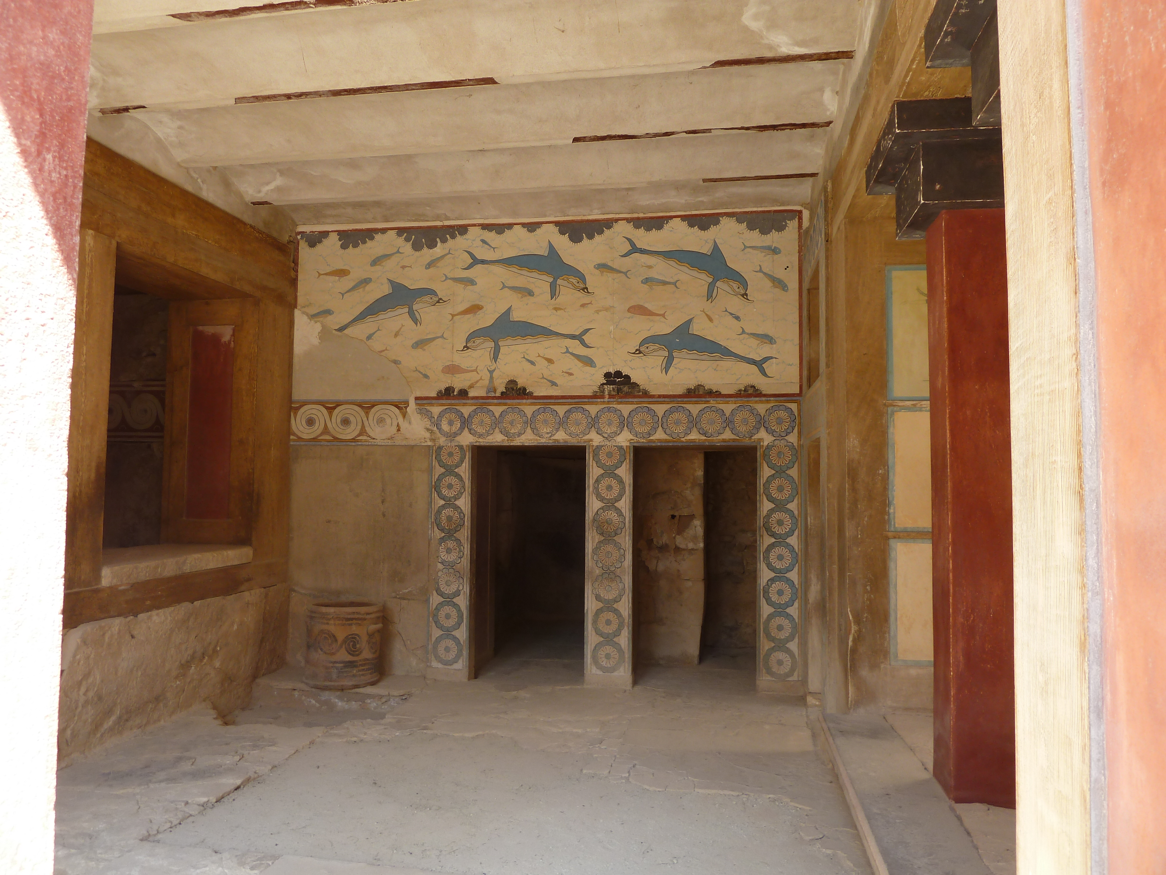 Minoean Pallace, Knossos, Crete, Greece